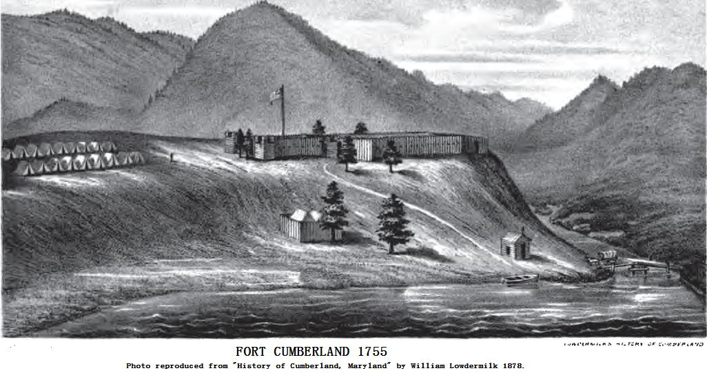 Fort Cumberland (Maryland). (copyright expired, "History of Cumberland, Maryland", 1878, by William Lowdermilk.)